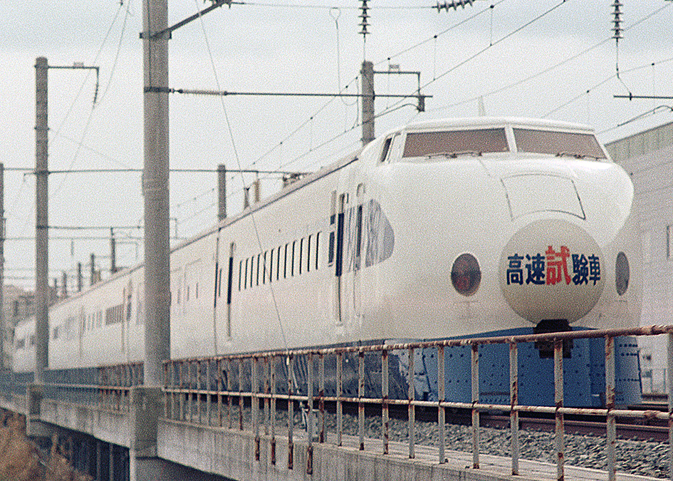 JNR Class 961 experimental shinkansen set at Sendai Depot (now Shinkansen General Rolling Stock Center)